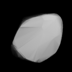 3D convex shape model of 389 Industria, computed using light curve inversion techniques. J. Hanuš, J. Ďurech, M. Brož, B. D. Warner (June 2011). "A study of asteroid pole-latitude distribution based on an extended set of shape models derived by the lightcurve inversion method". Astronomy and Astrophysics 530: A134. ISSN 0004-6361. arXiv